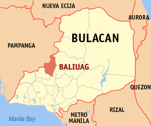 Map of Bulacan showing the location of Baliuag